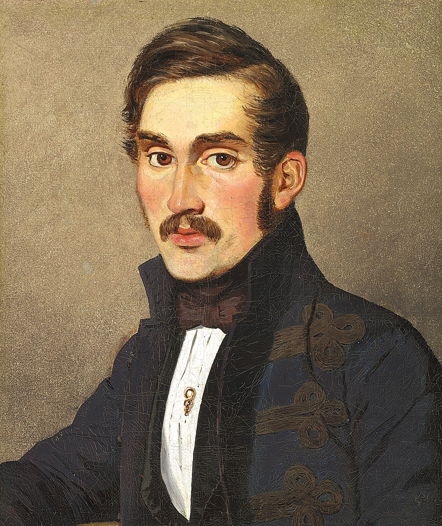 The artist's older brother, Emanuel Andreas Lundbye (1814-1903) followed the family tradition and became an army officer. In the First Schleswig War he served in the Danish West Indies, but in the Second Schleswig War he fought with distinction. By 1840 he was still a lieutenant, but eventually became a full colonel in 1867.